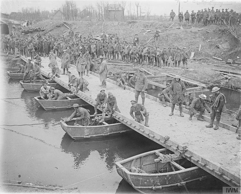 The German Withdrawal To the Hindenburg Line, March-april 1917 Royal Engineers building a pontoon bridge across the Somme River at Peronne, 22 March 1917. British Army units entered Peronne on 18 March 1917.